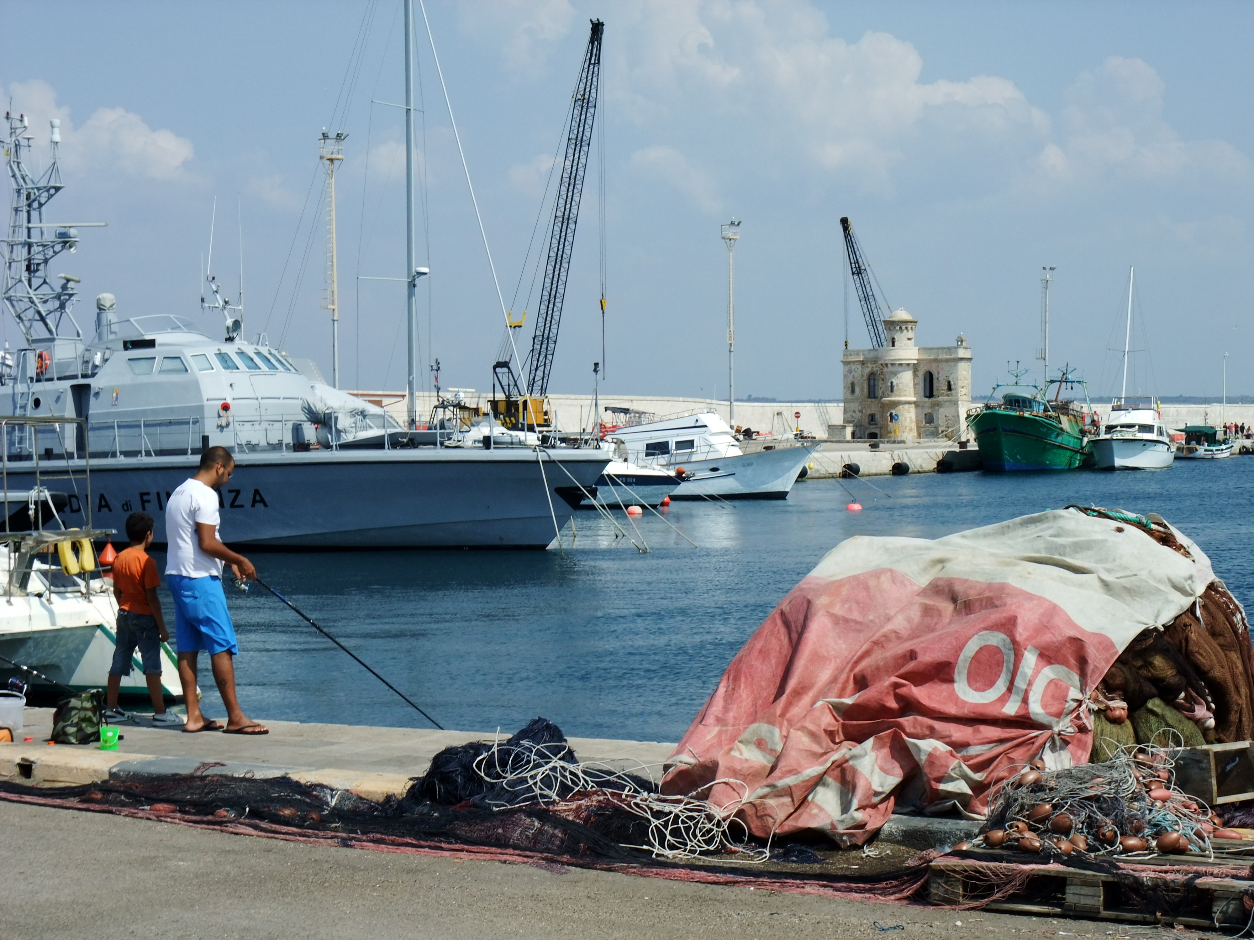 Harbour of Gallipoli, Apulia, southern Italy